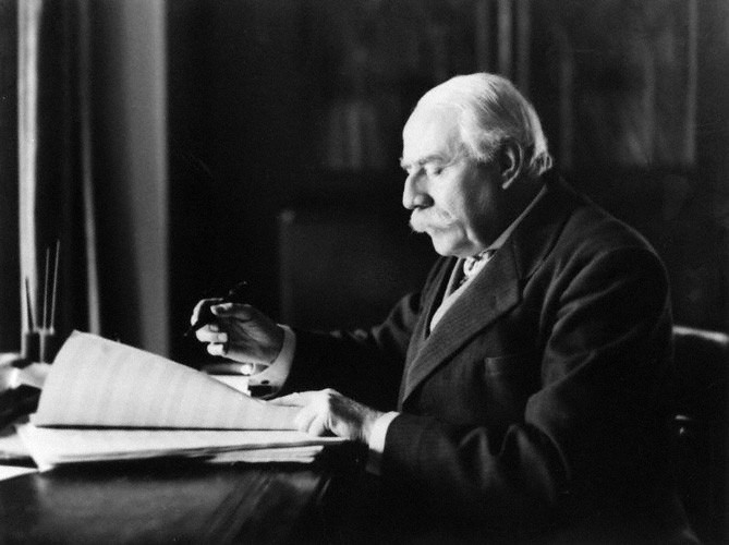 Edward Elgar, photographed in 1931 by Herbert Lambert.